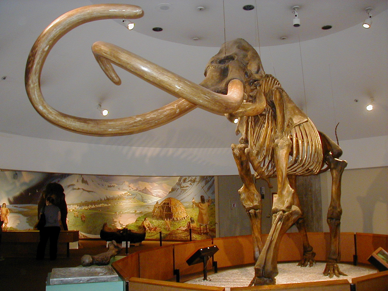 Skeleton of Columbian mammoth, Mammuthus columbi, in the George C. Page Museum at the La Brea Tar Pits, Los Angeles, California